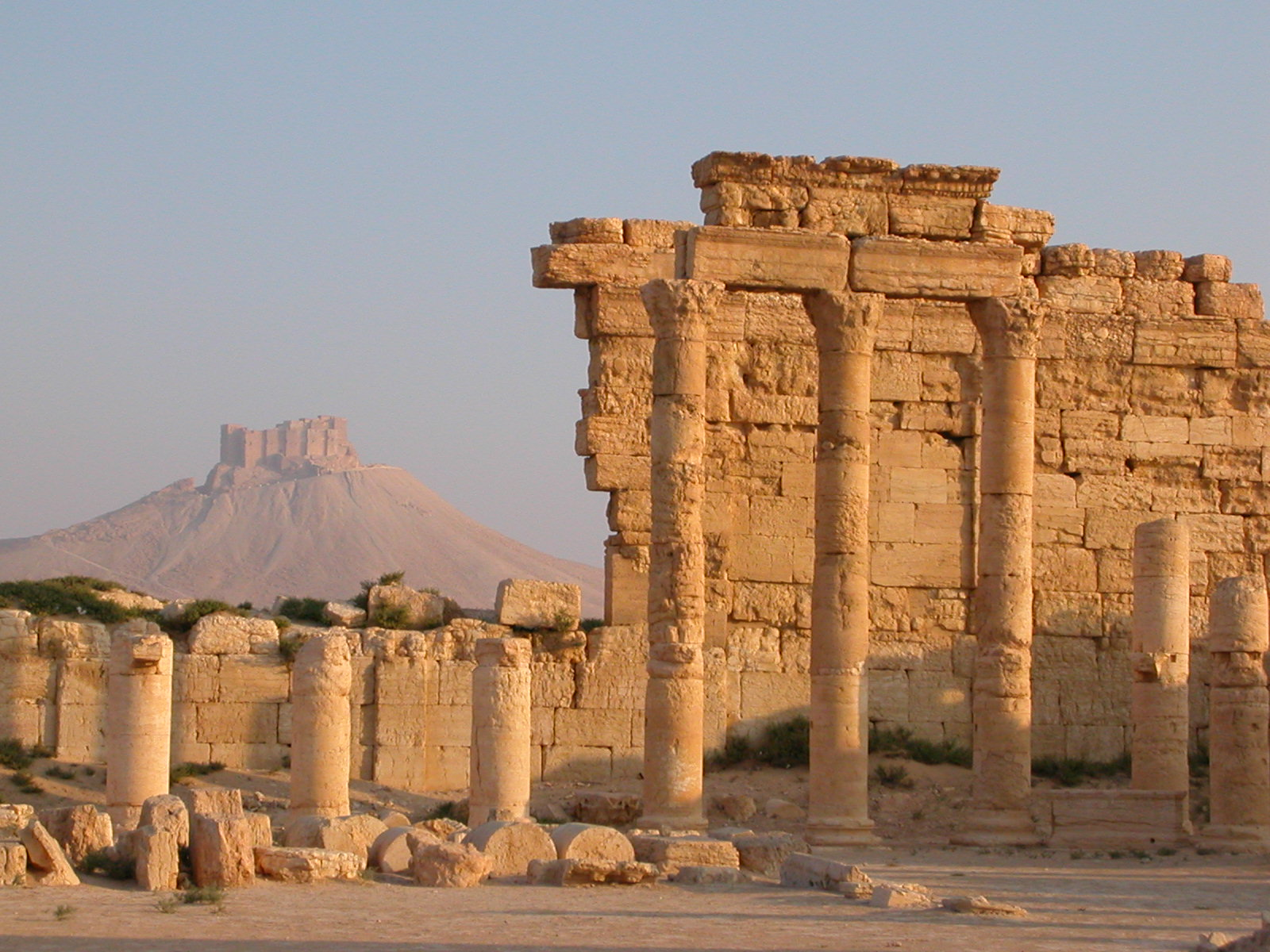 View of Qalaat Ibn Maan in the distance from Palmyra.